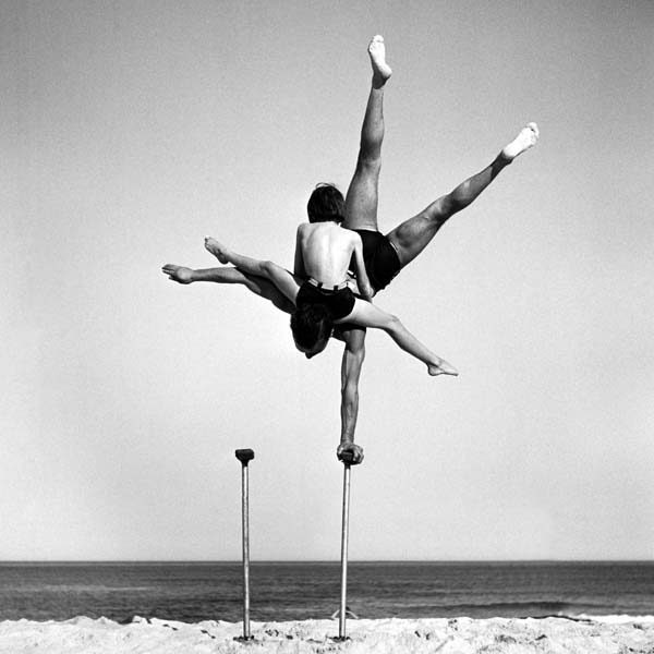 Photograph of Balance canes, Arthur Coots and daughter Pauline at Bondi Beach, Sydney, taken by George Caddy